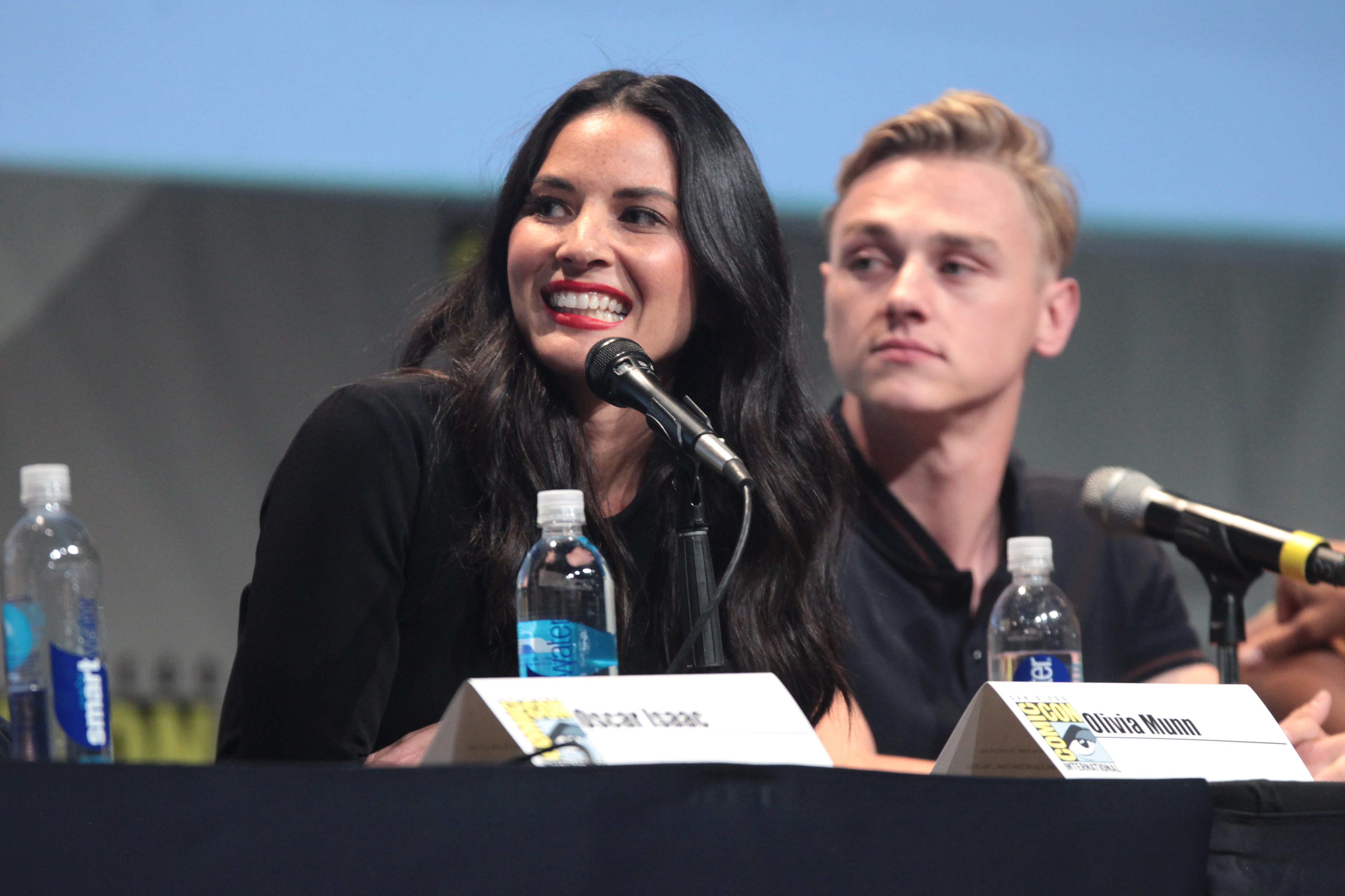 Olivia Munn and Ben Hardy speaking at the 2015 San Diego Comic Con International, for "X-Men: Apocalypse", at the San Diego Convention Center in San Diego, California.